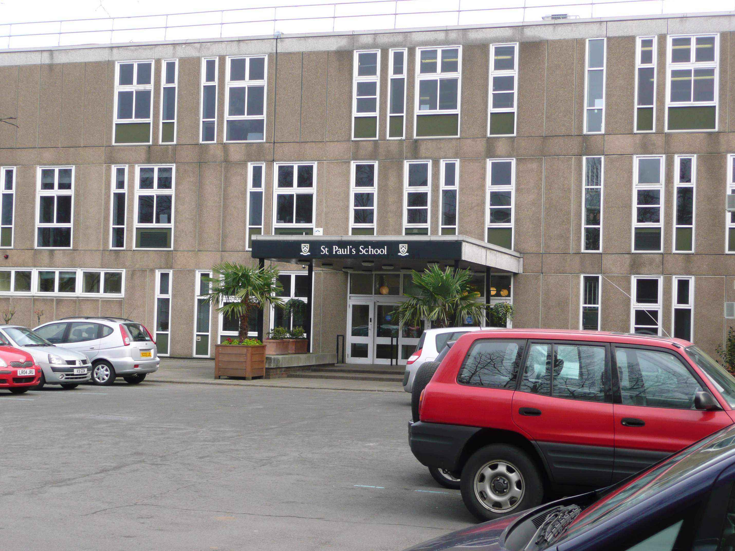 The former front entrance of St Paul's School. This building has now been demolished.